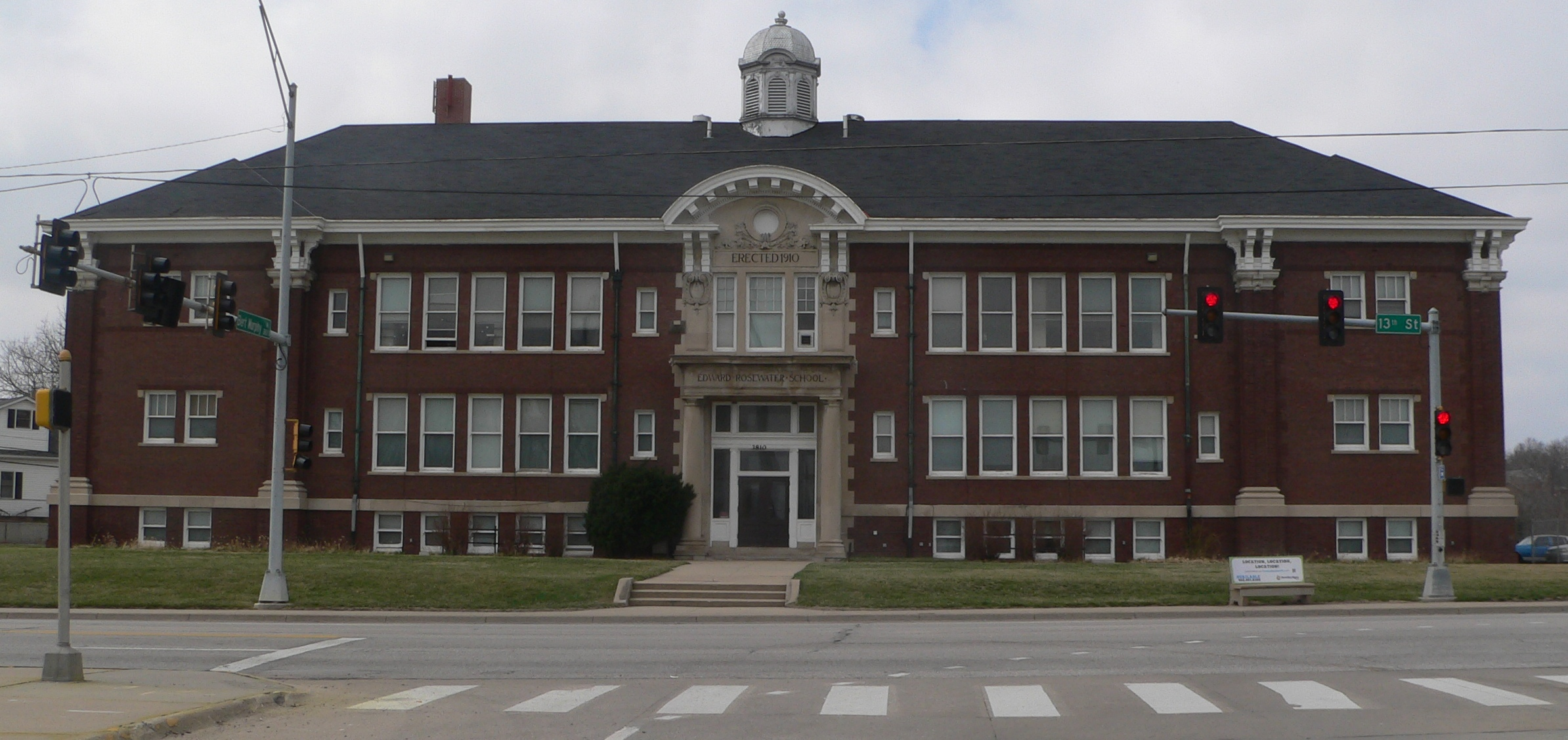 Rosewater School, located at 3764 S. 13th Street in Omaha, Nebraska; seen from the east, across 13th.